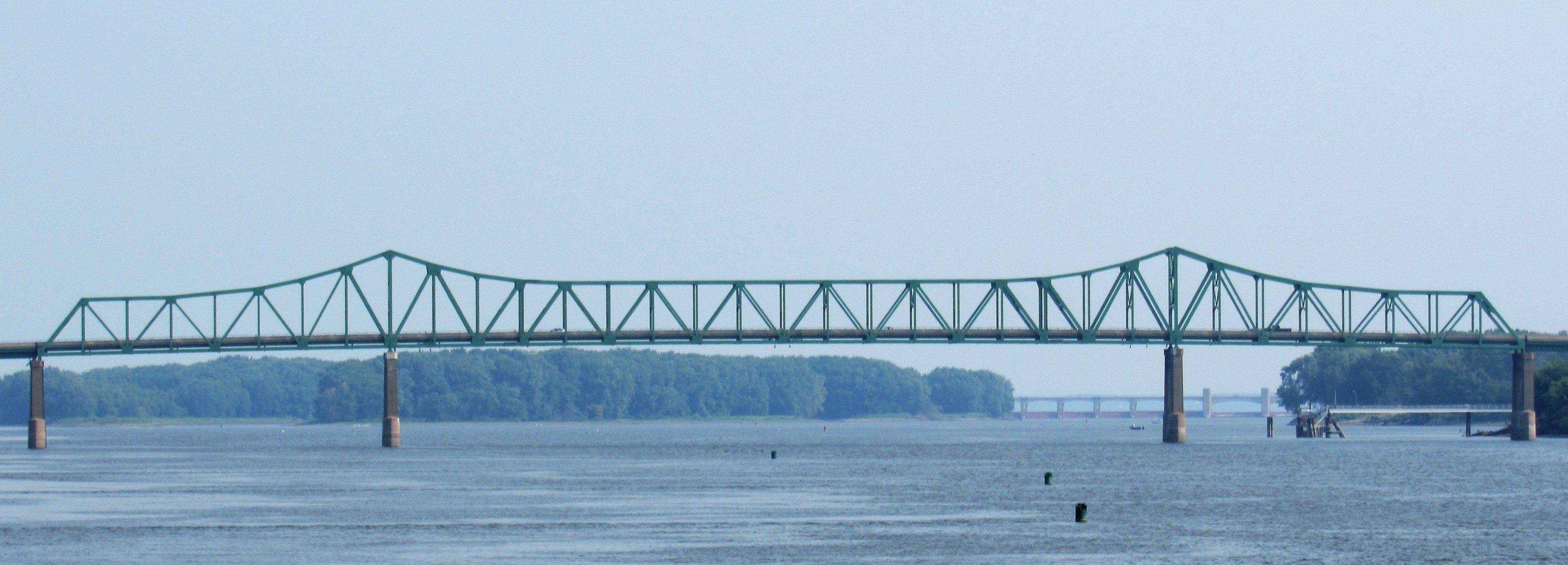 The Mark Morris Memorial Bridge between Clinton, Iowa and Fulton, Illinois.